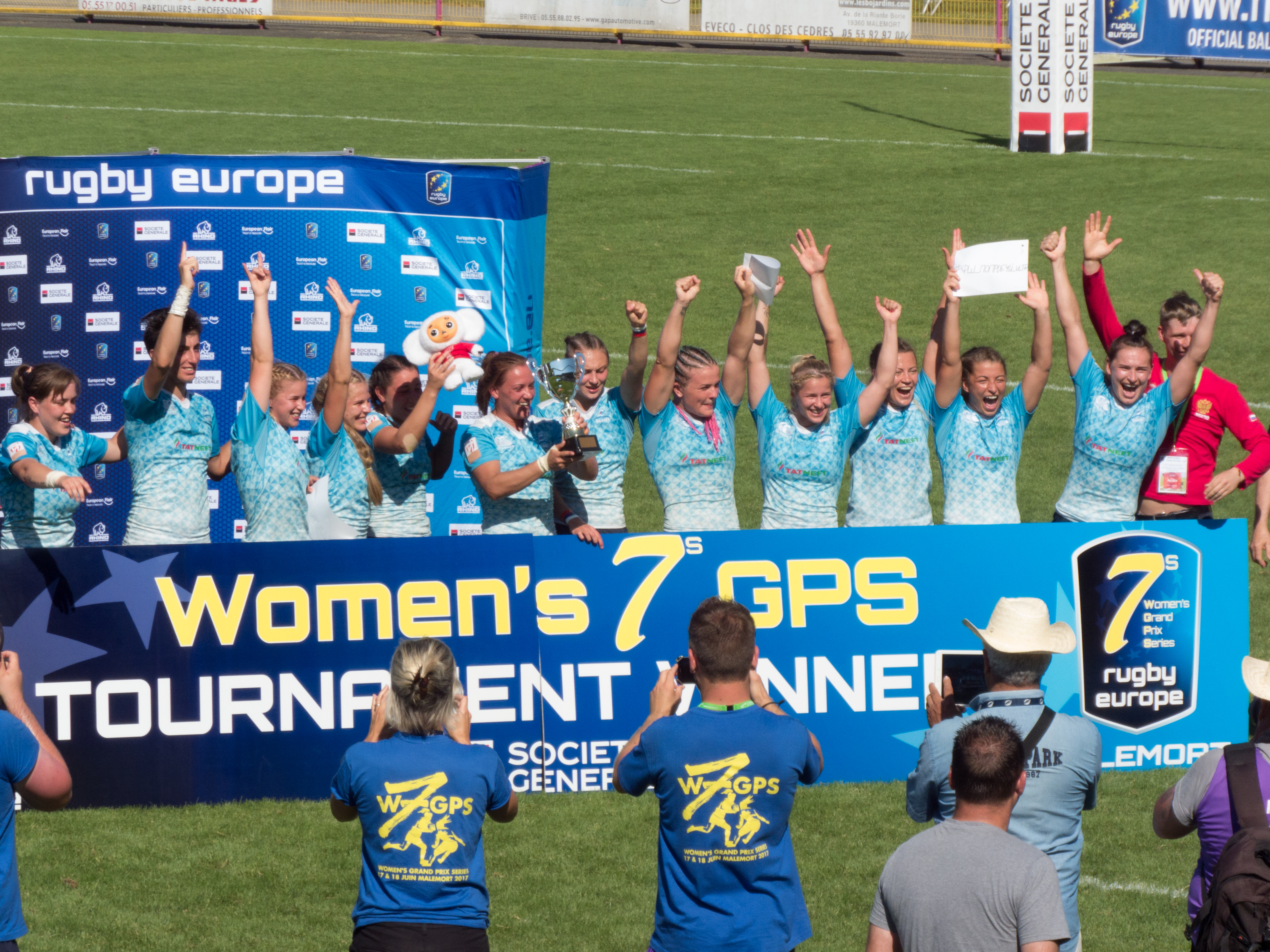 Malemort Sevens 2017 — 18 June 2017, stade Raymond-Faucher. Match between: Russia — France